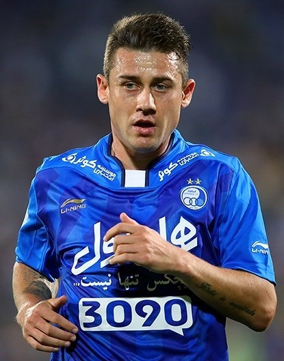 Server Djeparov playing for Esteghlal against Tractor Sazi, Azadi Stadium